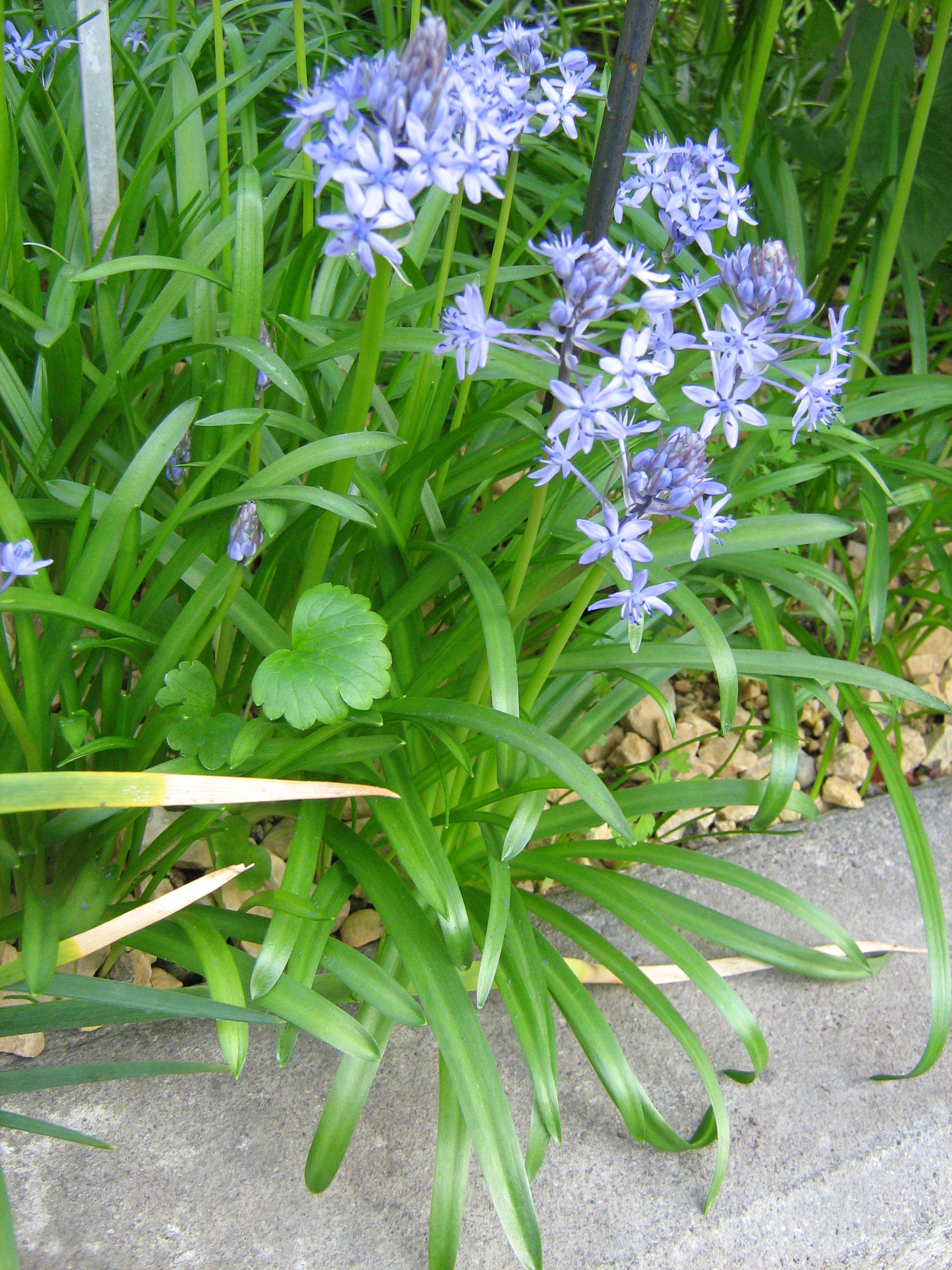 Hyacinthoides italica in the botanic garden of Berne